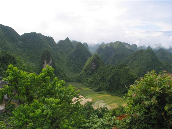 Peak cluster depression